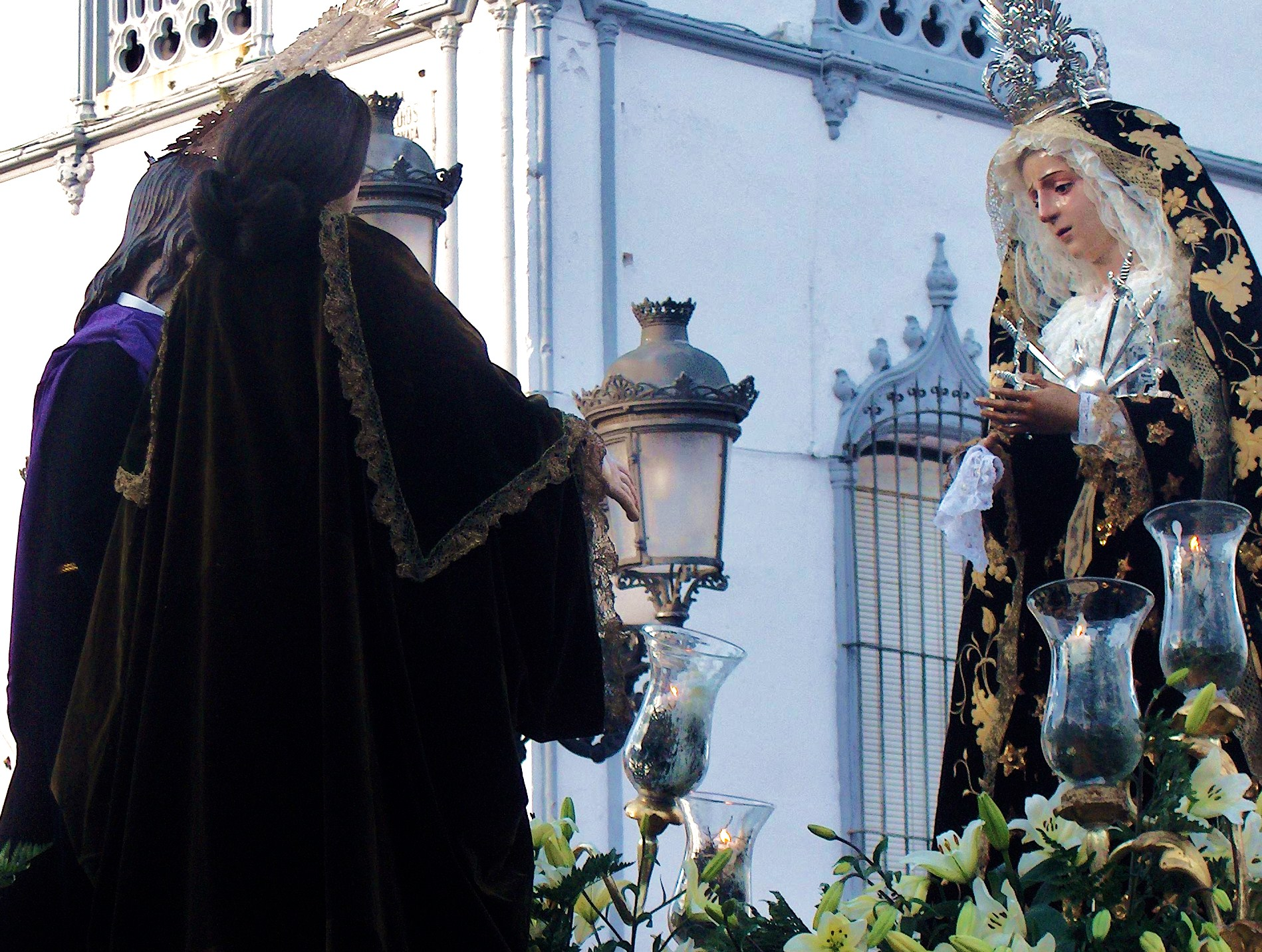 seven puñales